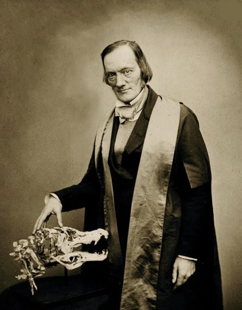 Portrait of English anatomist and palaeontologist Richard Owen with the skull of a crocodile. Albumen print from wet collodion on glass negative, 1856.